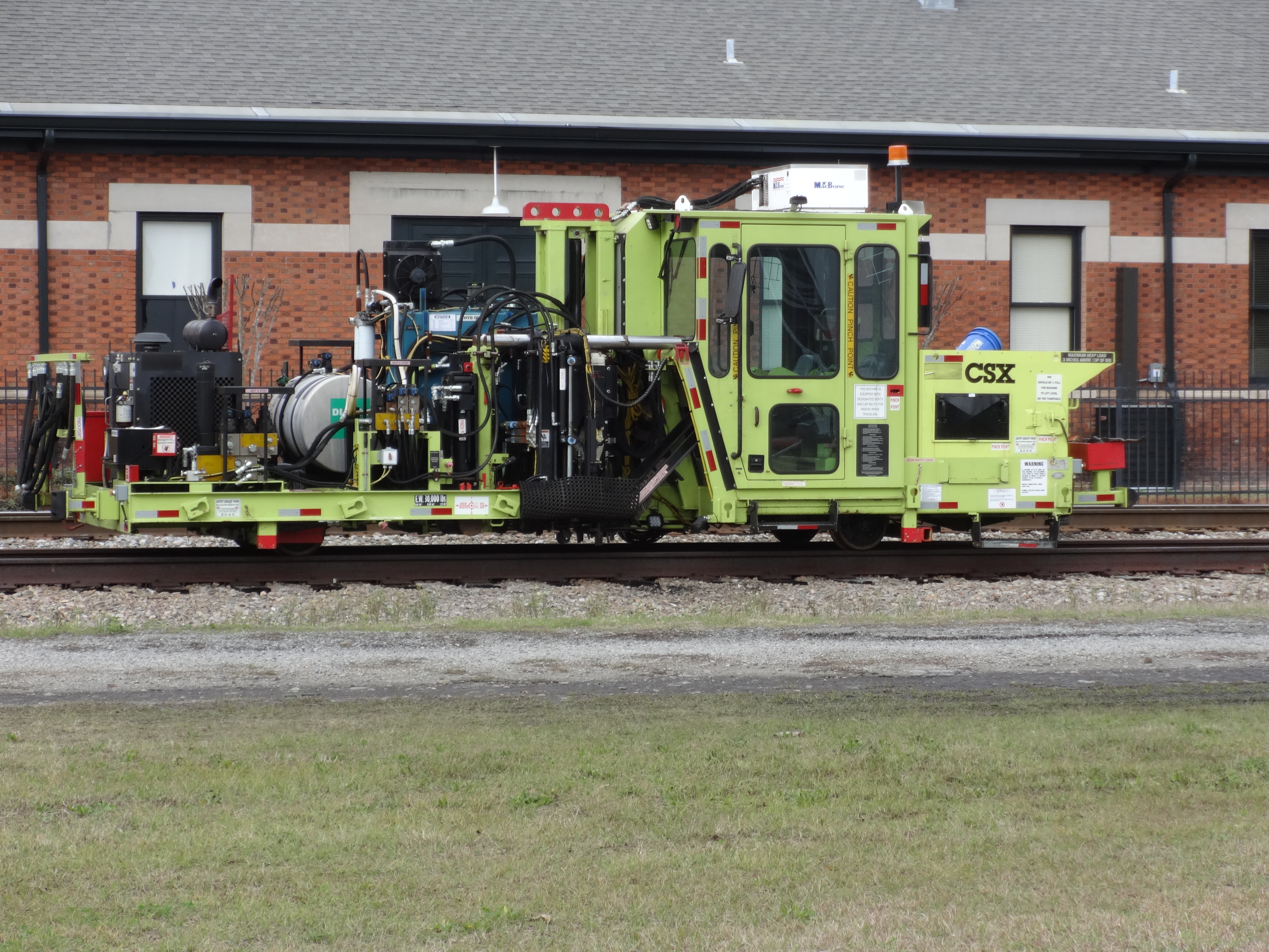 CSX, Waycross, Ware County, Georgia